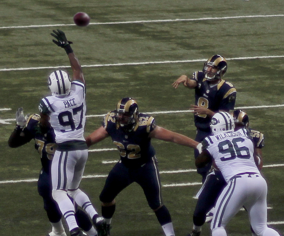 Bradford makes a toss.